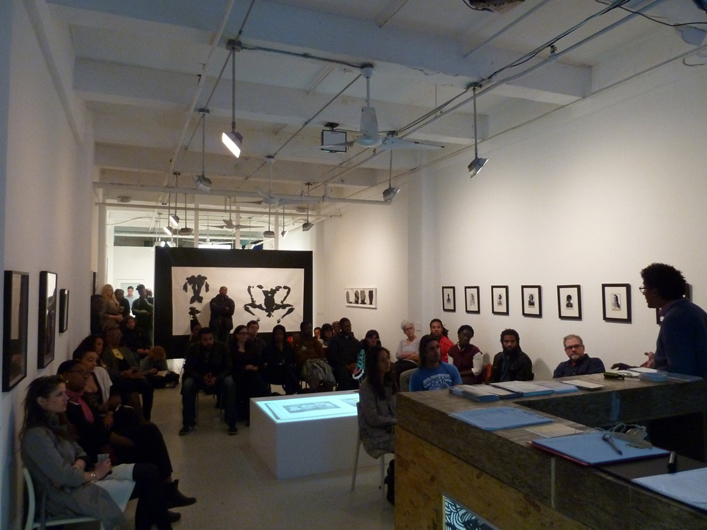 copyrighted by the artist under Creative Commons Licensing.